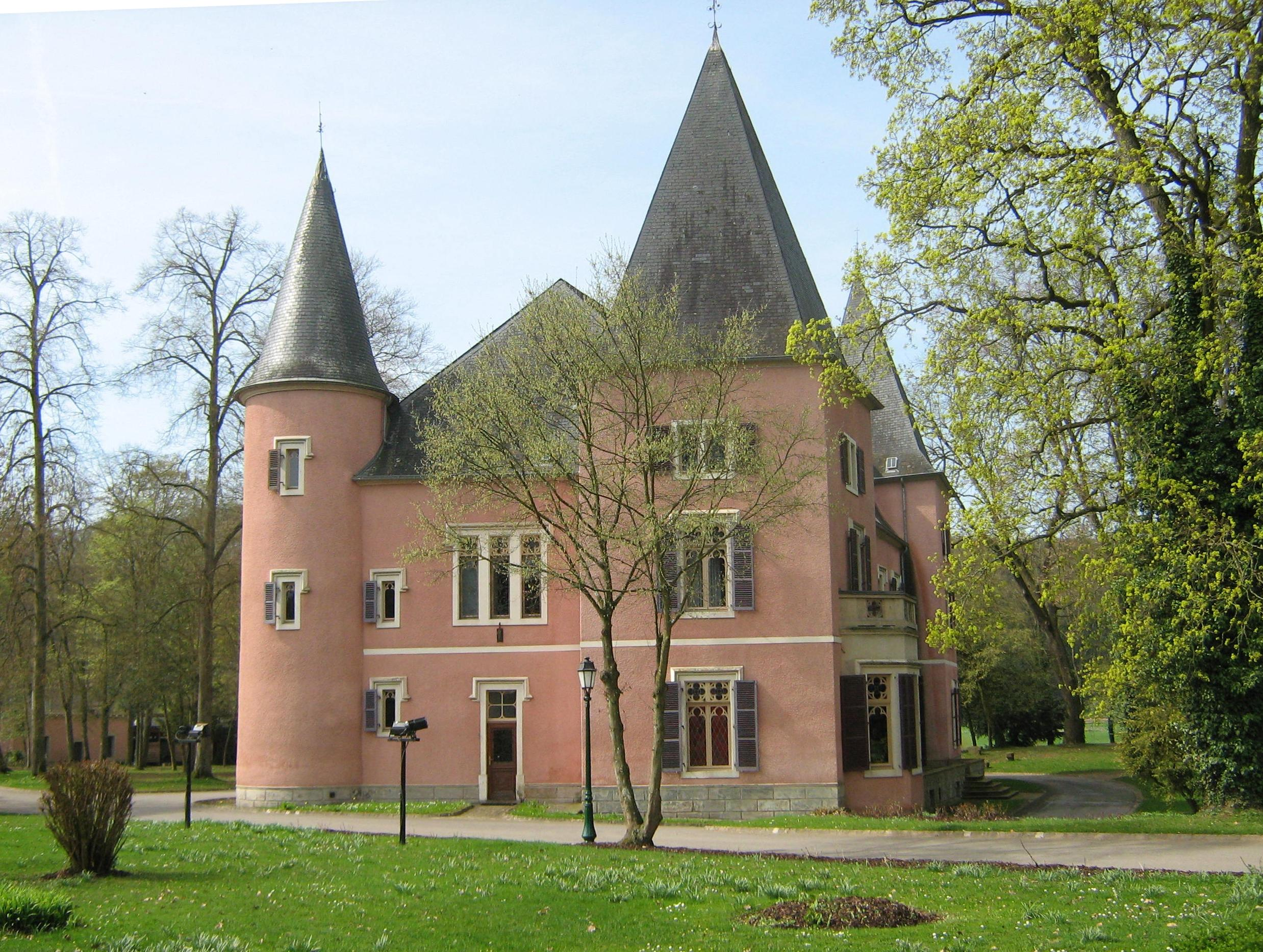 Erpeldange Castle (Château d'Erpeldange) near Diekirch, Luxembourg